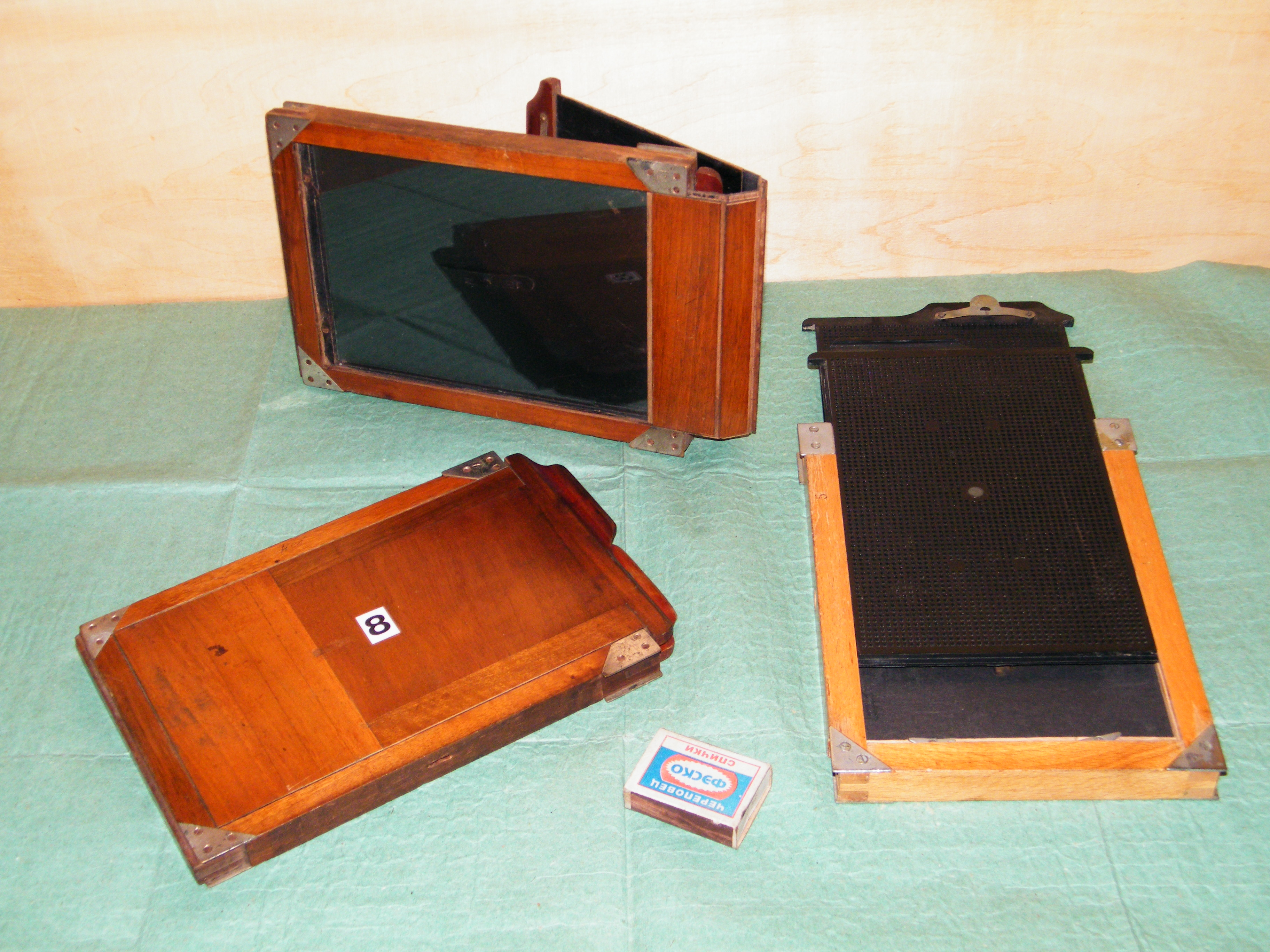 Кассеты размером 13 на 18